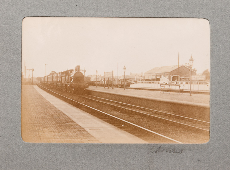 Image number: 4 Locomotive name: Colossus Locomotive number: Locomotive class: Jubilee Railway company: Description/notes: at Harrow & Wealdstone station One of 24 images from a unique and exceptional album dating from c. 1900 containing images of early steam locomotives. See the set description for further information. The original images are paper prints and measure c. 9cm x 6.5cm (3.5" x 2.5")